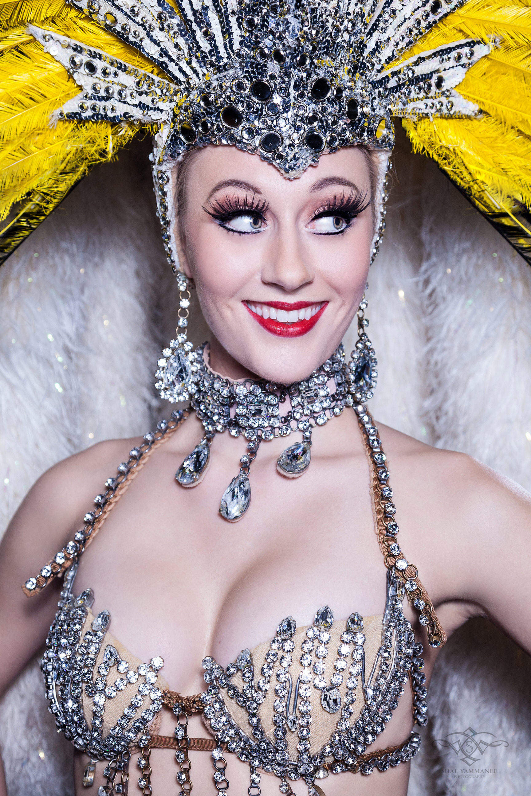 This is a close up of one of the costumes from the Disco section of Jubilee! A wonderful example of the intricate Swarovski jewellery and Showgirl Makeup.